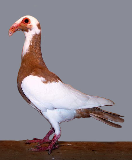 Scandaroon pigeon (yellow magpie marked)